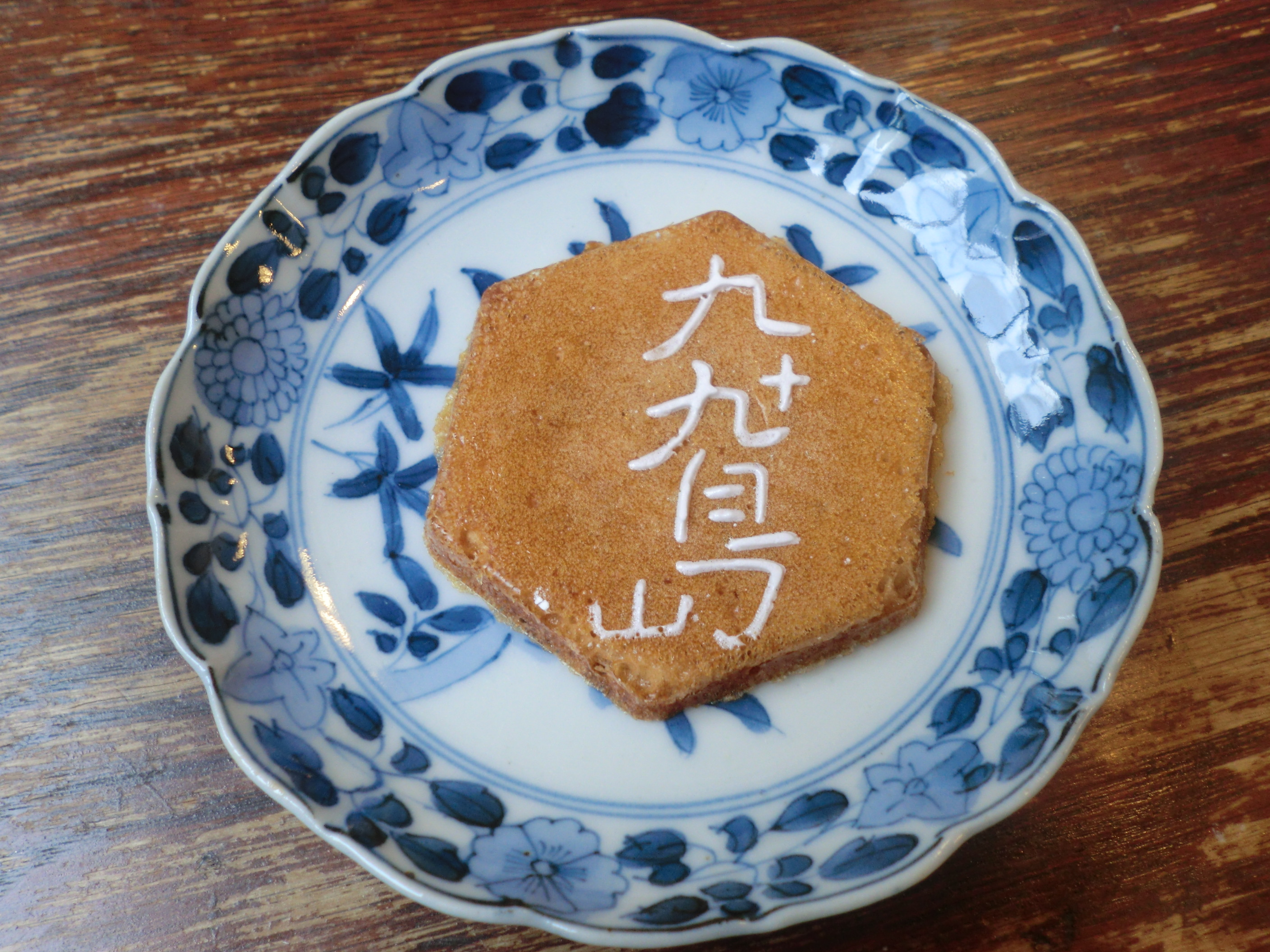 Kujūkushima senpei, local senbei of Sasebo,Nagasaki,Japan.